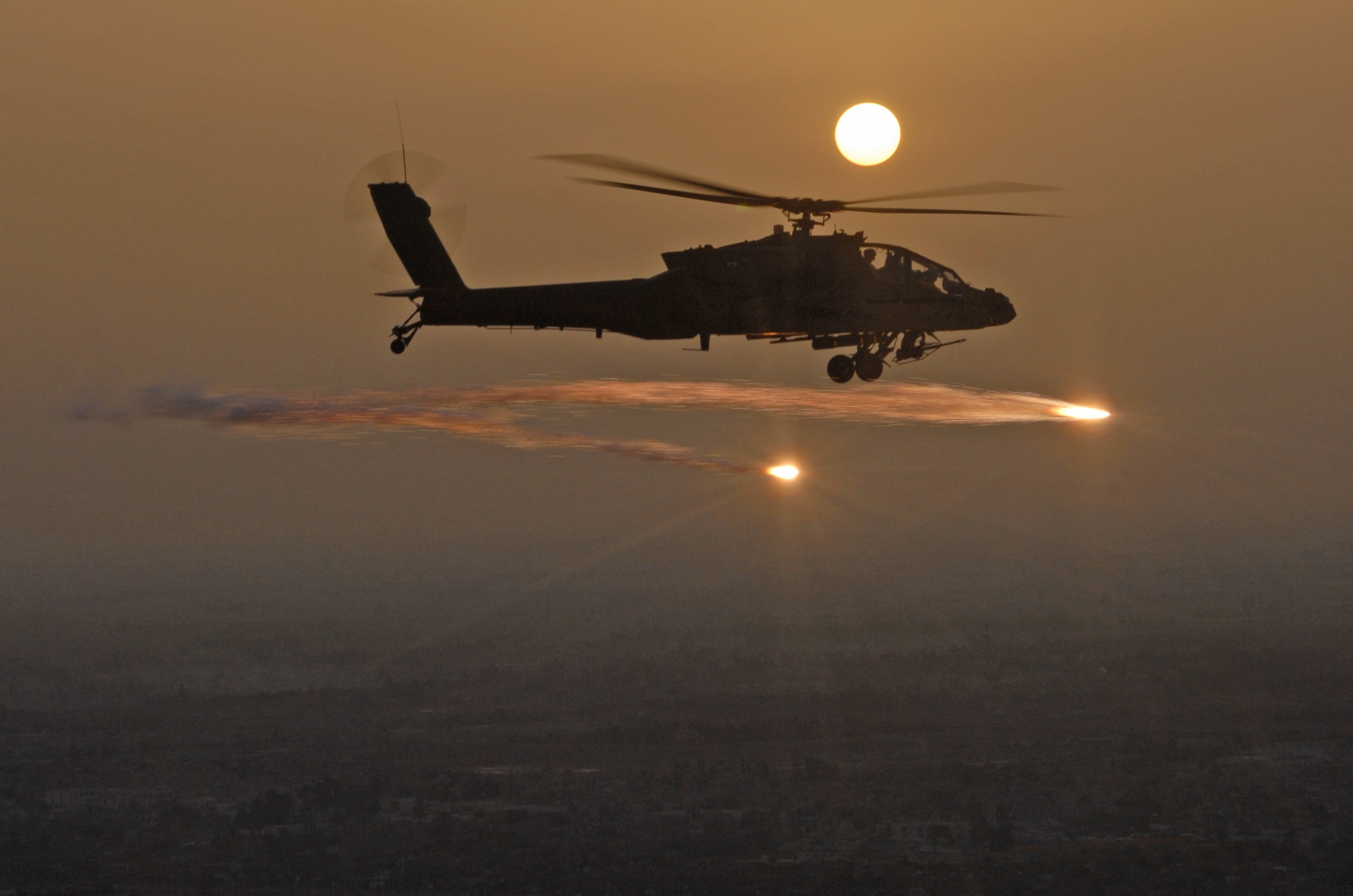 An AH-64D Apache helicopter fires flares as Soldiers from the 227th Aviation Regiment, 1st Air Cavalry Brigade, 1st Cavalry Division, based at Camp Taji, conduct a mission in Iraq, April 2007.